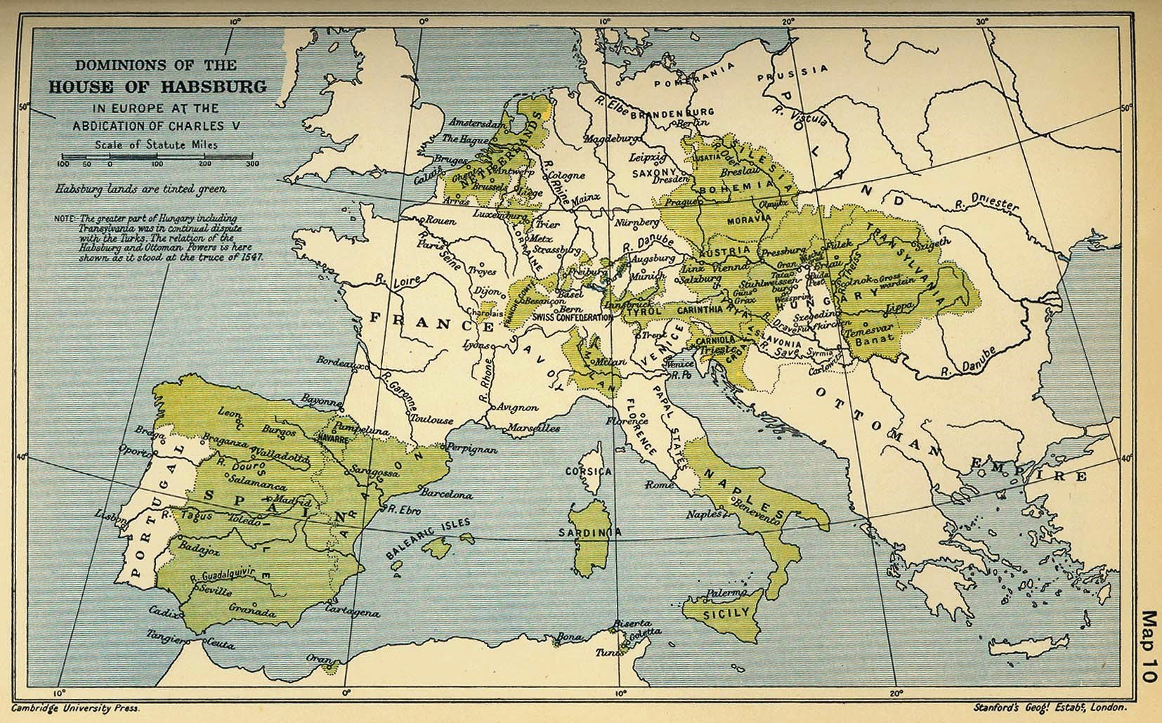 A map of the dominions of the House of Habsburg following the abdication of the emperor Charles V (1556).